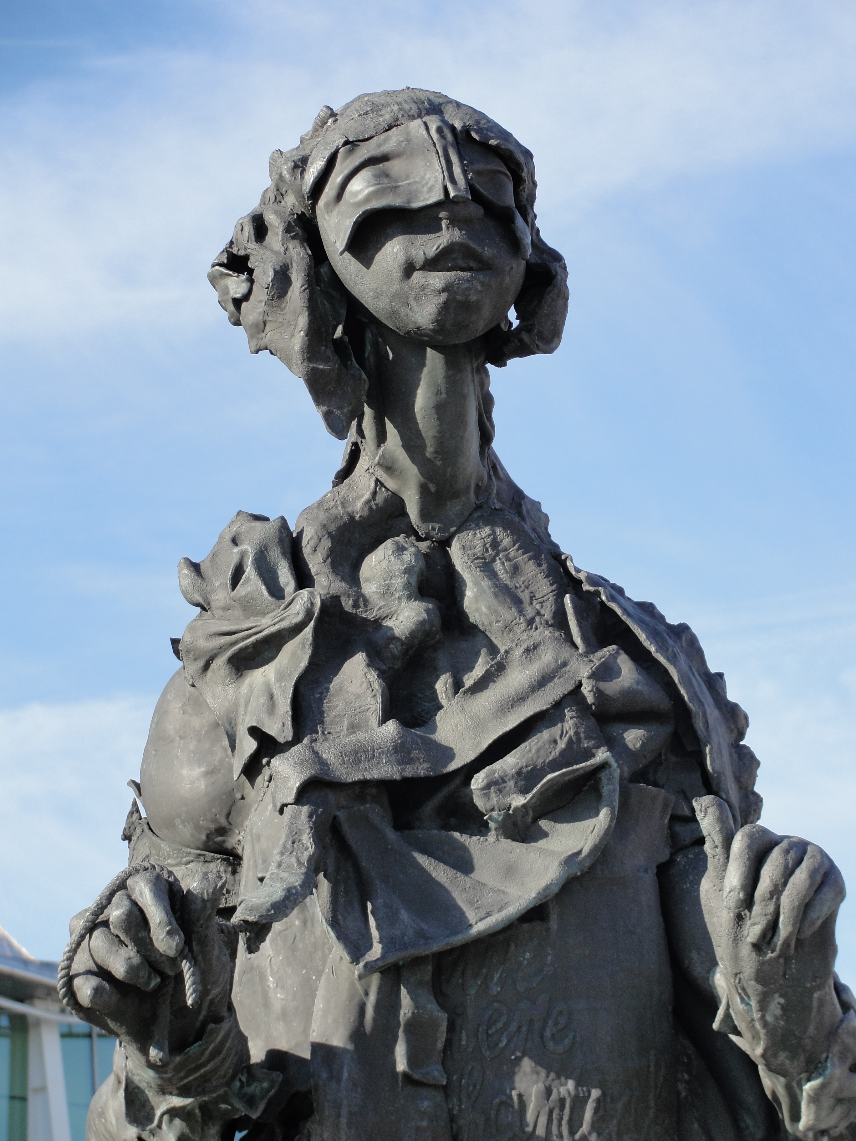 Statue of Jan de Lichte, 18th century criminal, by sculptor Roel D'Haese